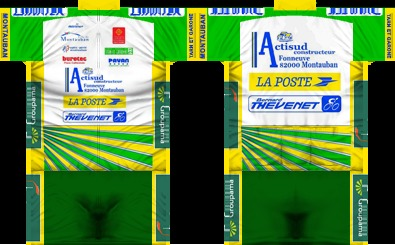 Maillot US Montauban Cyclisme 82